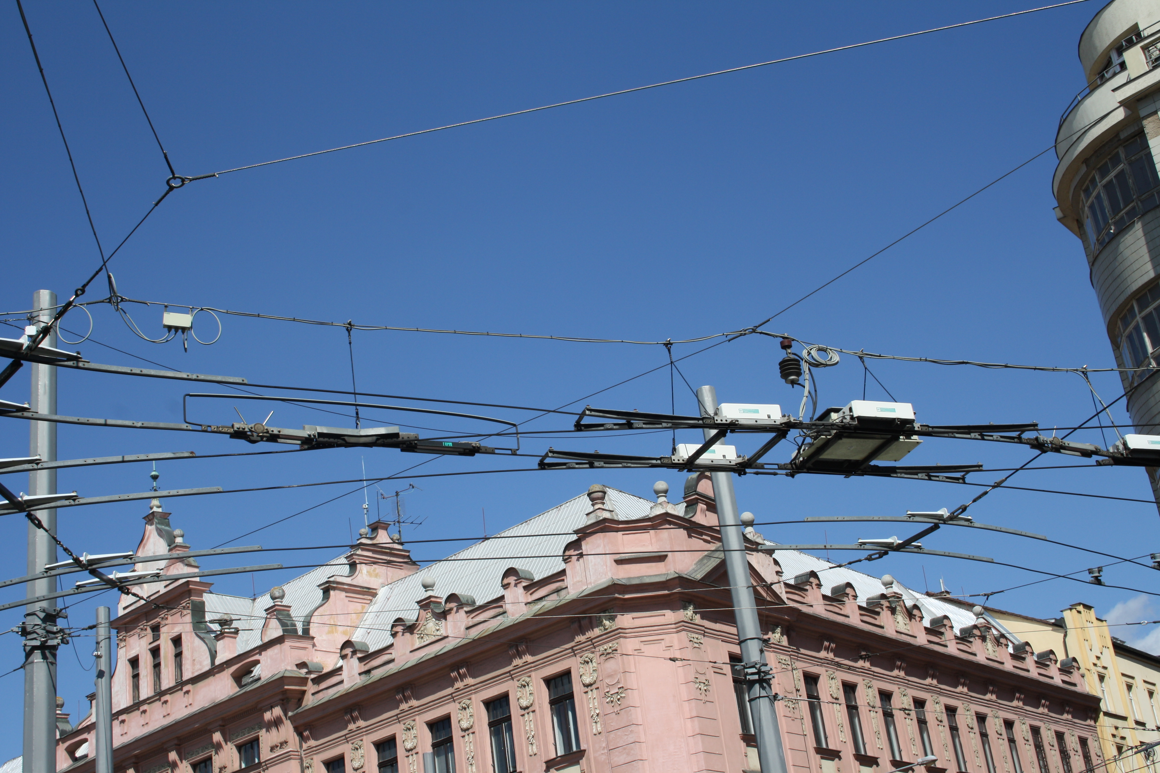 Trolleybus wire switch